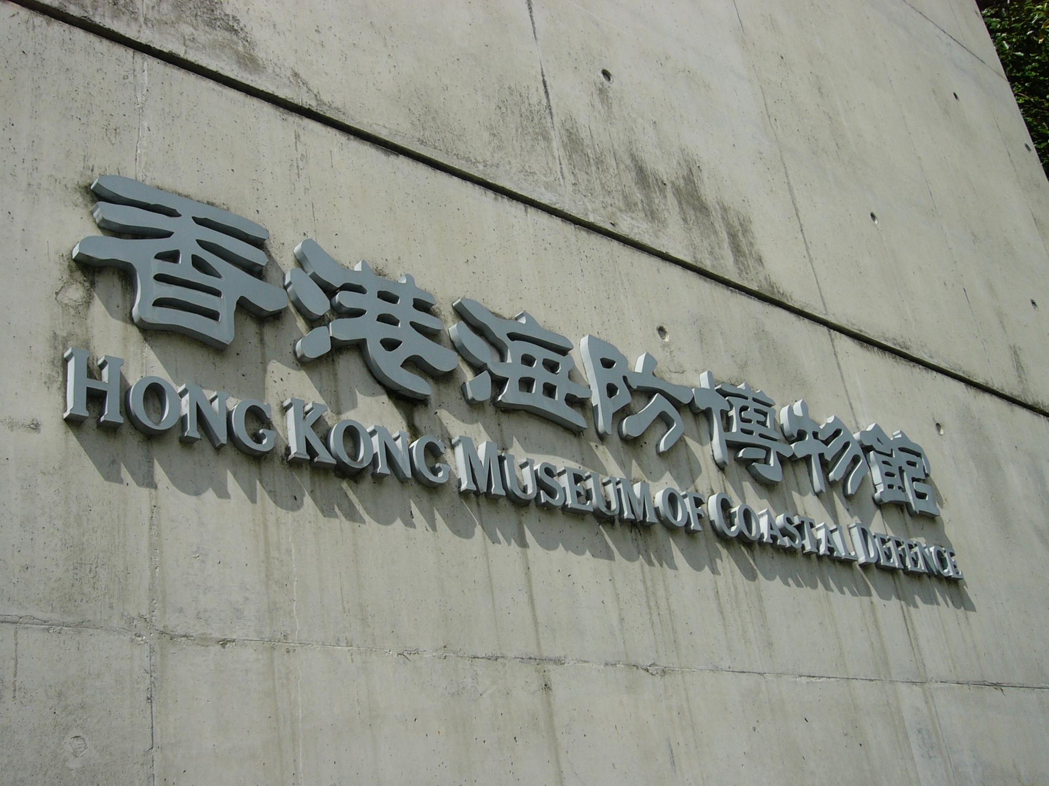 Hong Kong Museum of Coastal Defence (pix by DFANZ)